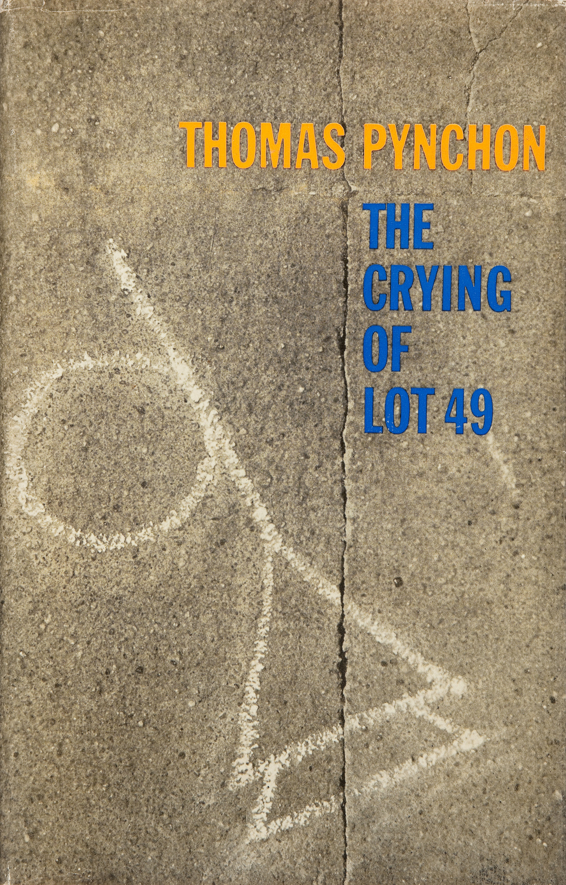 Cover design from the first-edition dust jacket of the 1965 novel The Crying of Lot 49 by the American author Thomas Pynchon. Published by J. B. Lippincott & Co..